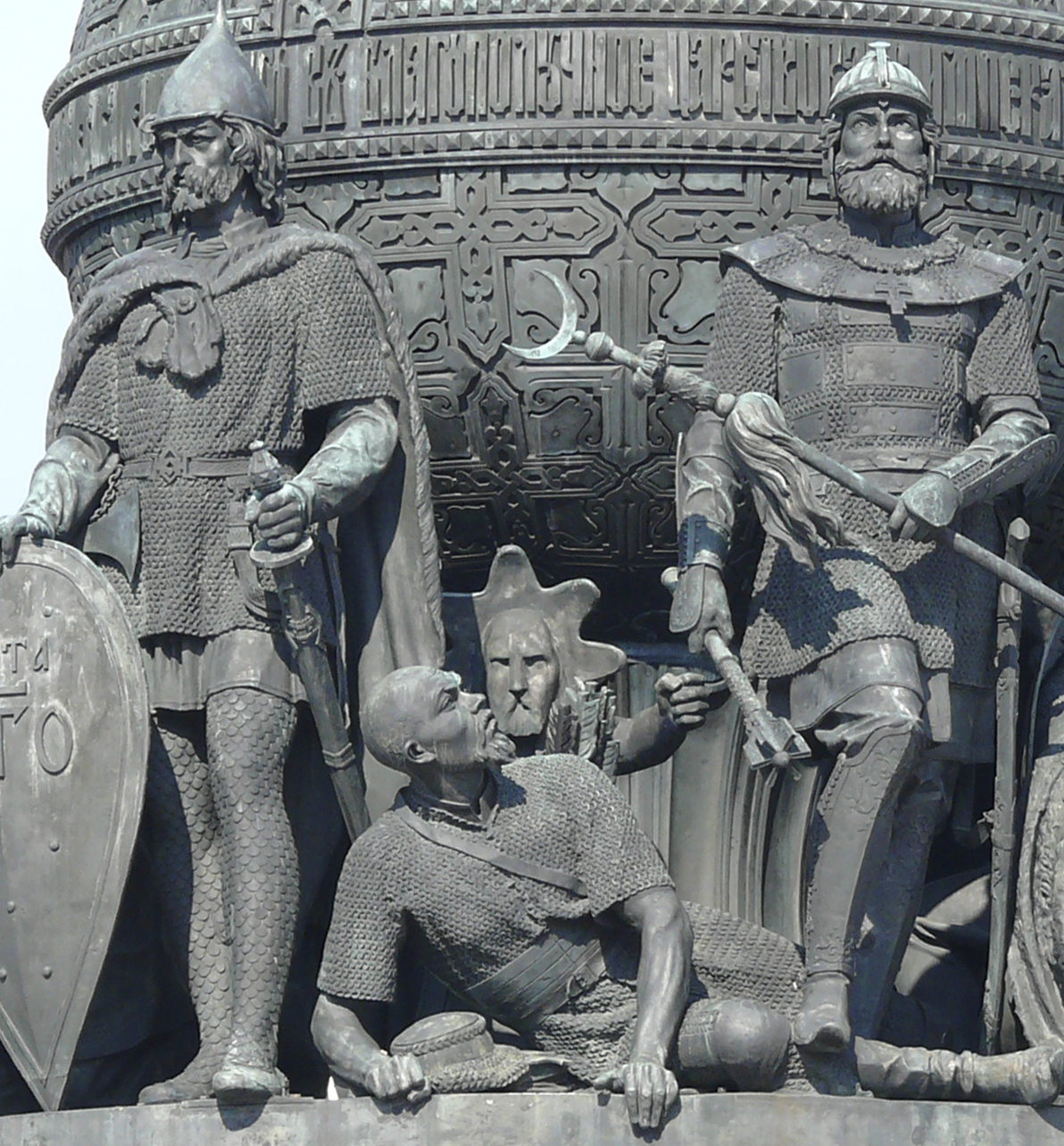 Veles figure (in the center on the background) on the Monument "Millennium of Russia" in Veliky Novgorod, Russia